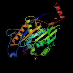 X-ray structure of motor and neck domains from rat brain kinesin. Biochemistry v36 pp.16155-16165 , 1997